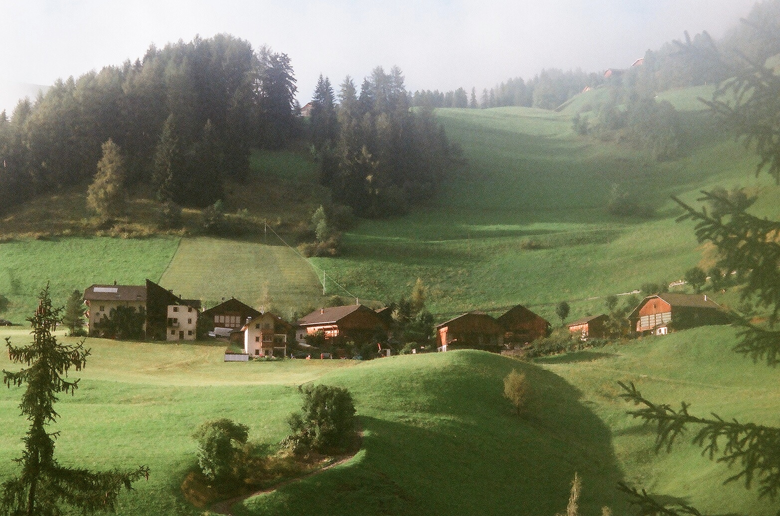 Tavella faction of Wengen (Südtirol)